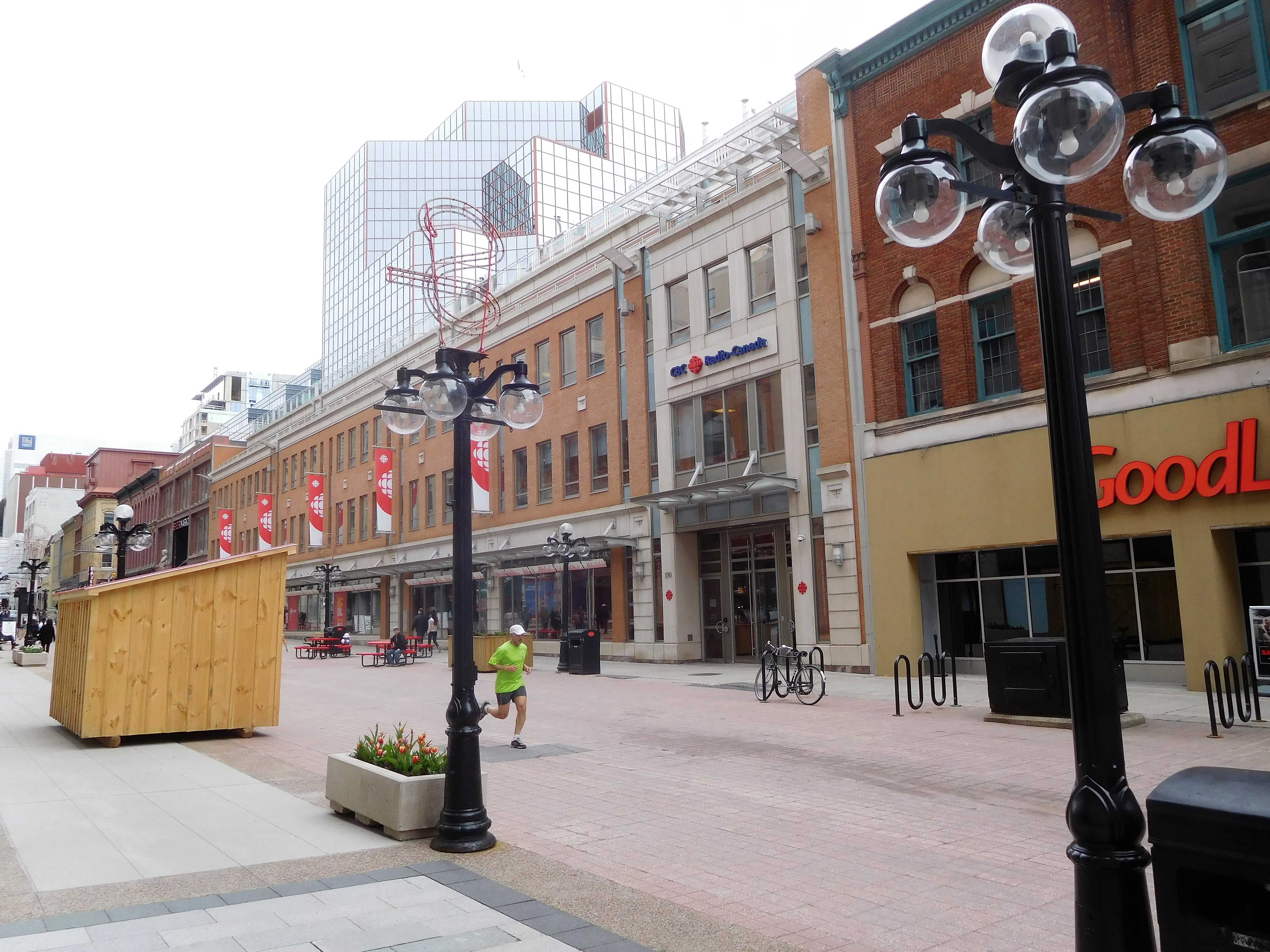 View from Sparks Street : CBC Ottawa Broadcast Centre, 181 Queen Street, Ottawa